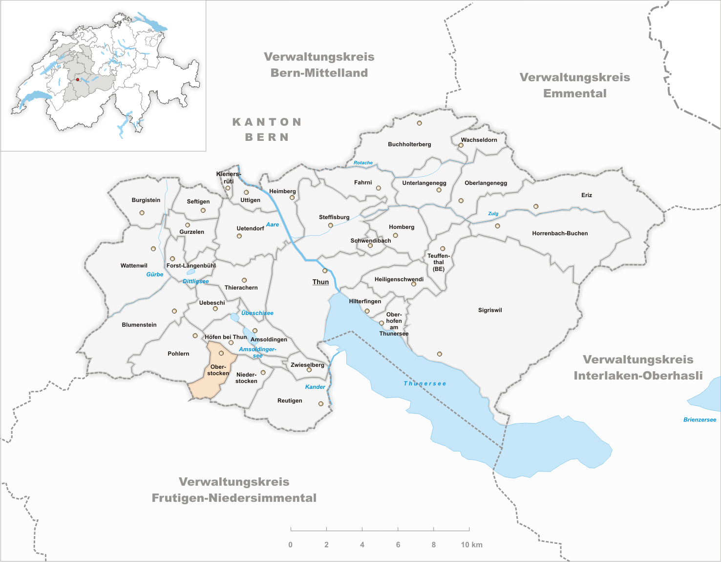 Municipality Oberstocken